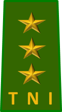 Lieutenant General rank insignia that used on daily uniforms of Indonesian Army